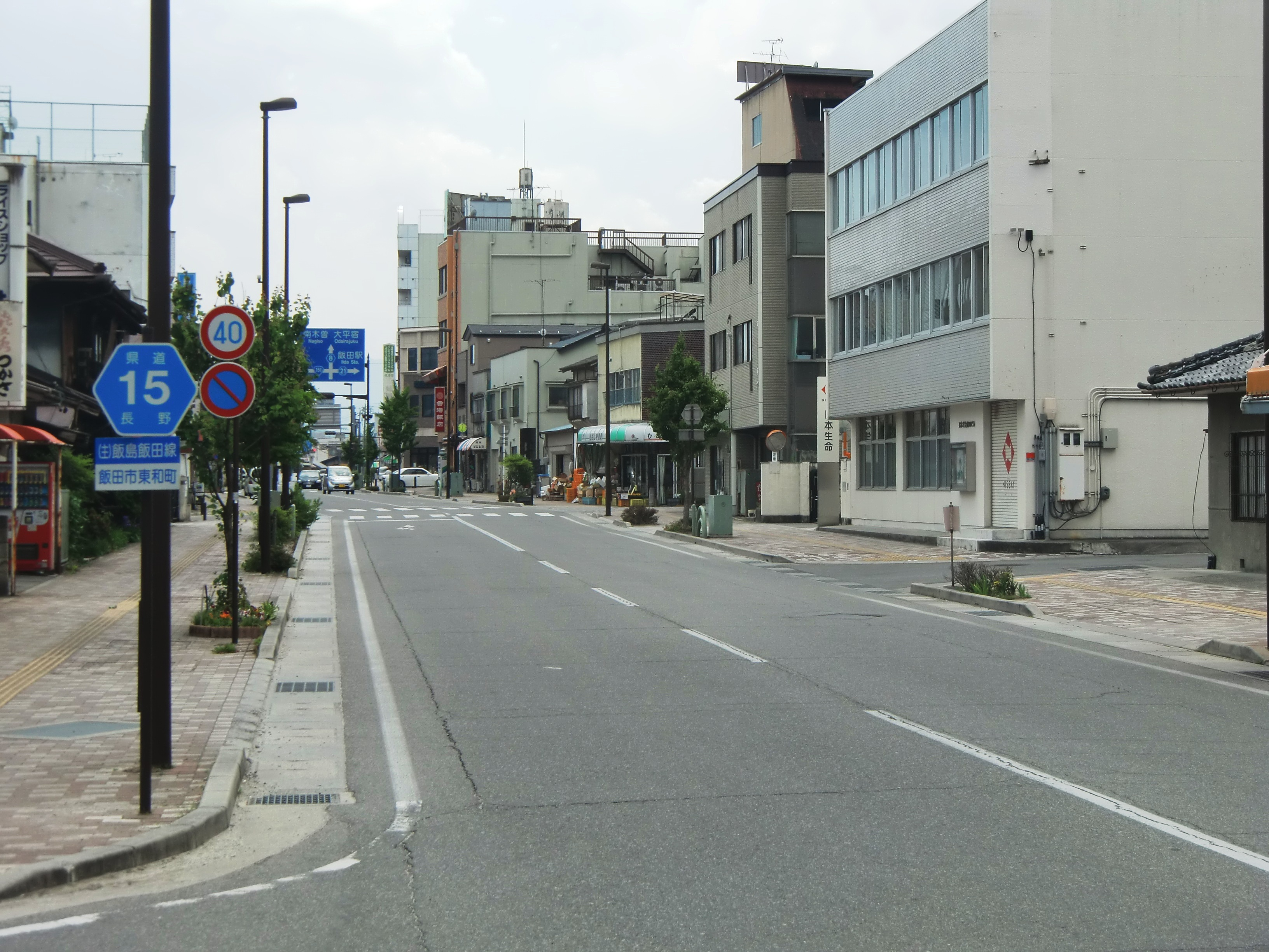 Nagano prefectural road 15 (Iijima-Iida line) in Tōwa chō, Iida city, Nagano prefecture, Japan.